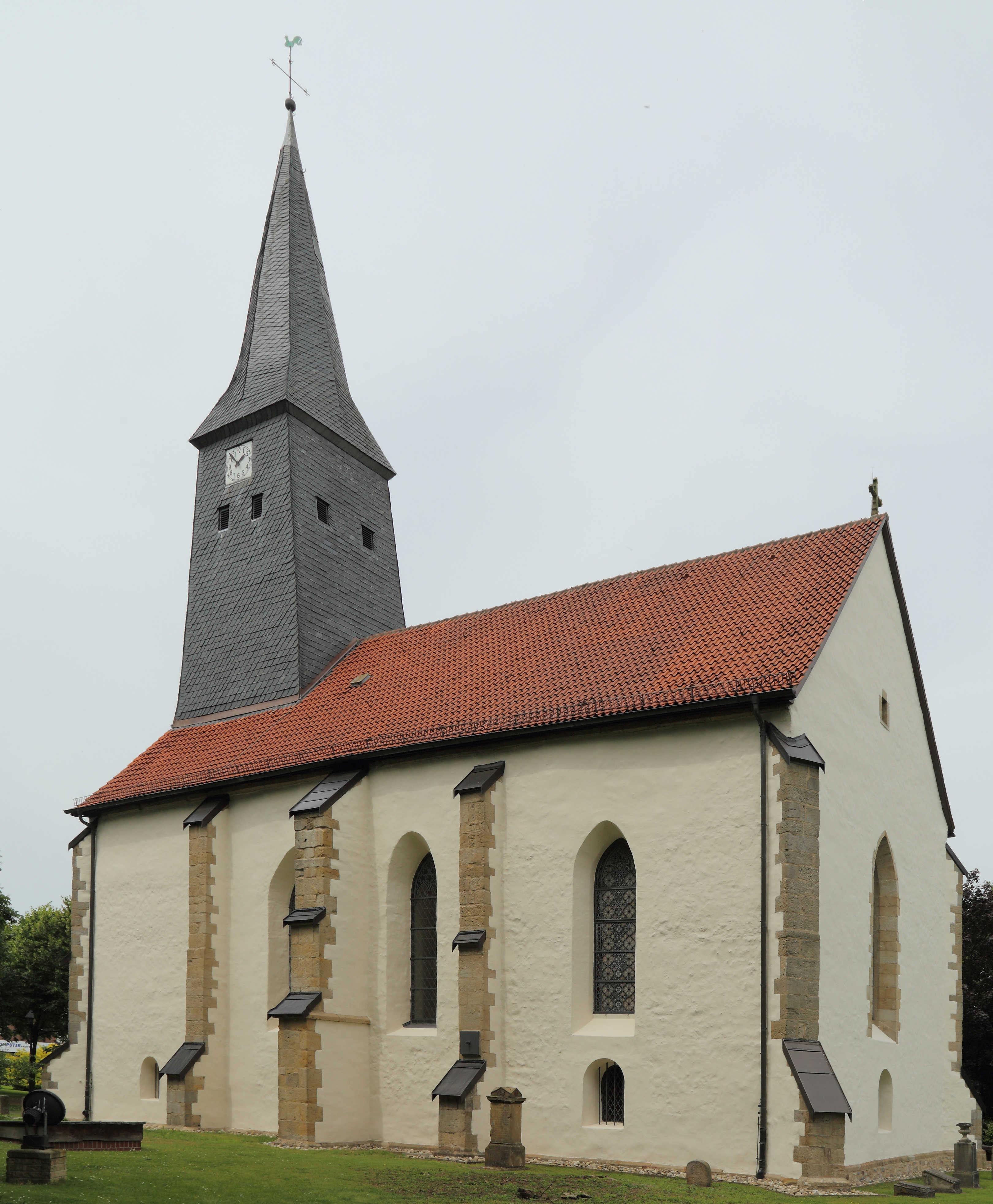 Lotte Protestant Church (Evangelische Kirche Lotte) in Alt-Lotte, a district of Lotte, Kreis Steinfurt, North Rhine-Westphalia, Germany. The church is a listed cultural heritage monument.